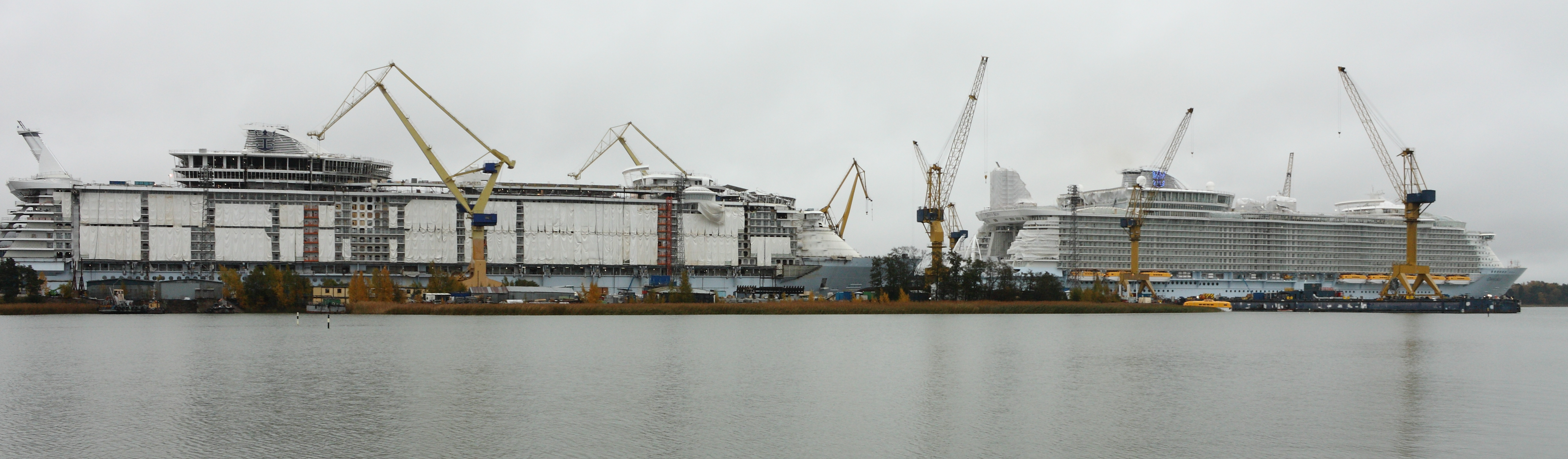 MS Allure of the Seas (left) and nearly finished MS Oasis of the Seas (right) under construction at STX Europe shipyard Turku, Finland. The weather was misty.